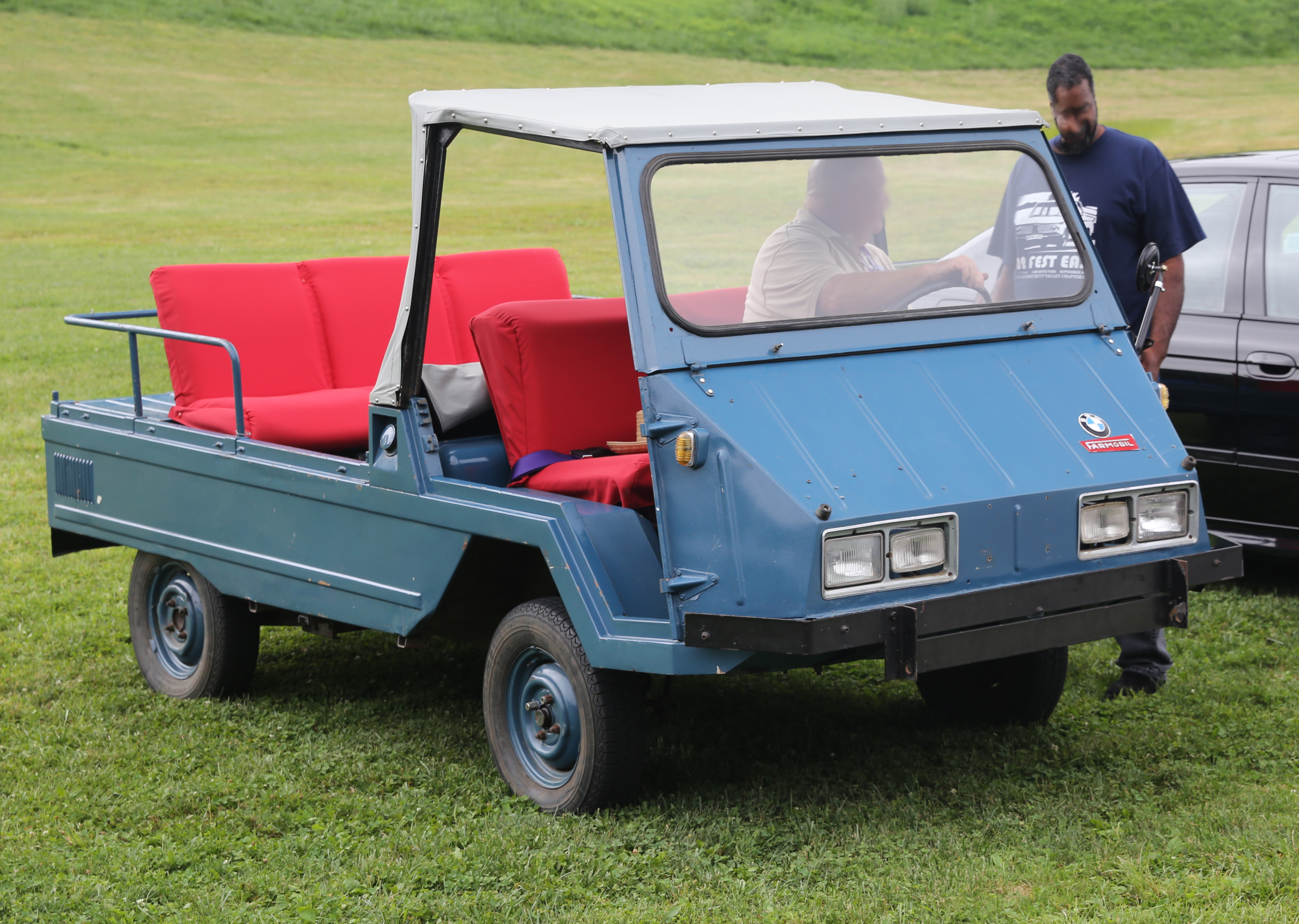 A 1965 Farmobil 700 seen at the 2014 Lime Rock Concours d'Élegance. This is a late model, which I suppose explains the headlamps - usually I only see single round headlights on Farmobils. Developed by Germany's Fahr company the Farmobil was built by Peter Kondorgouris' Farco company in Thessaloniki (Greece); this had been purchased by Chrysler by the time this car was built. The Farmobil was sold as a BMW in Germany and a few other countries, as a Steyr in Austria and Switzerland, and as a Chrysler product (through Simca in France) after the Farco takeover. Only about 1000 were built between 1962 and 1966. This one belongs to Willy Wiley, a long-term member of BMWCCA.